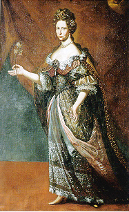 Portrait of Dorothea Sophie, Duchess of Parma (1670-1748), misidentified with her sister-in-law Margherita Maria Farnese (1664-1718)